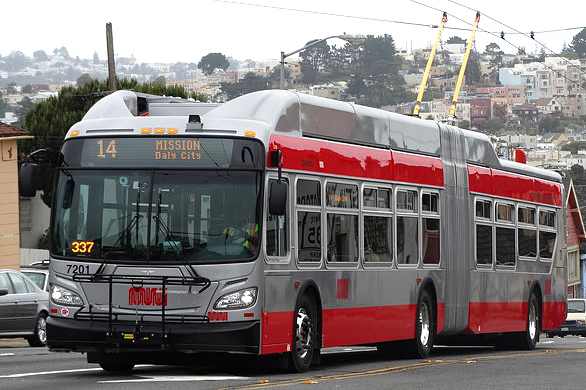 San Francisco Muni New Flyer XT60 trolley bus #7201 on the first day of service for the new type, shown in Daly City, on San Jose Avenue at Bepler Street, on route 14-Mission.